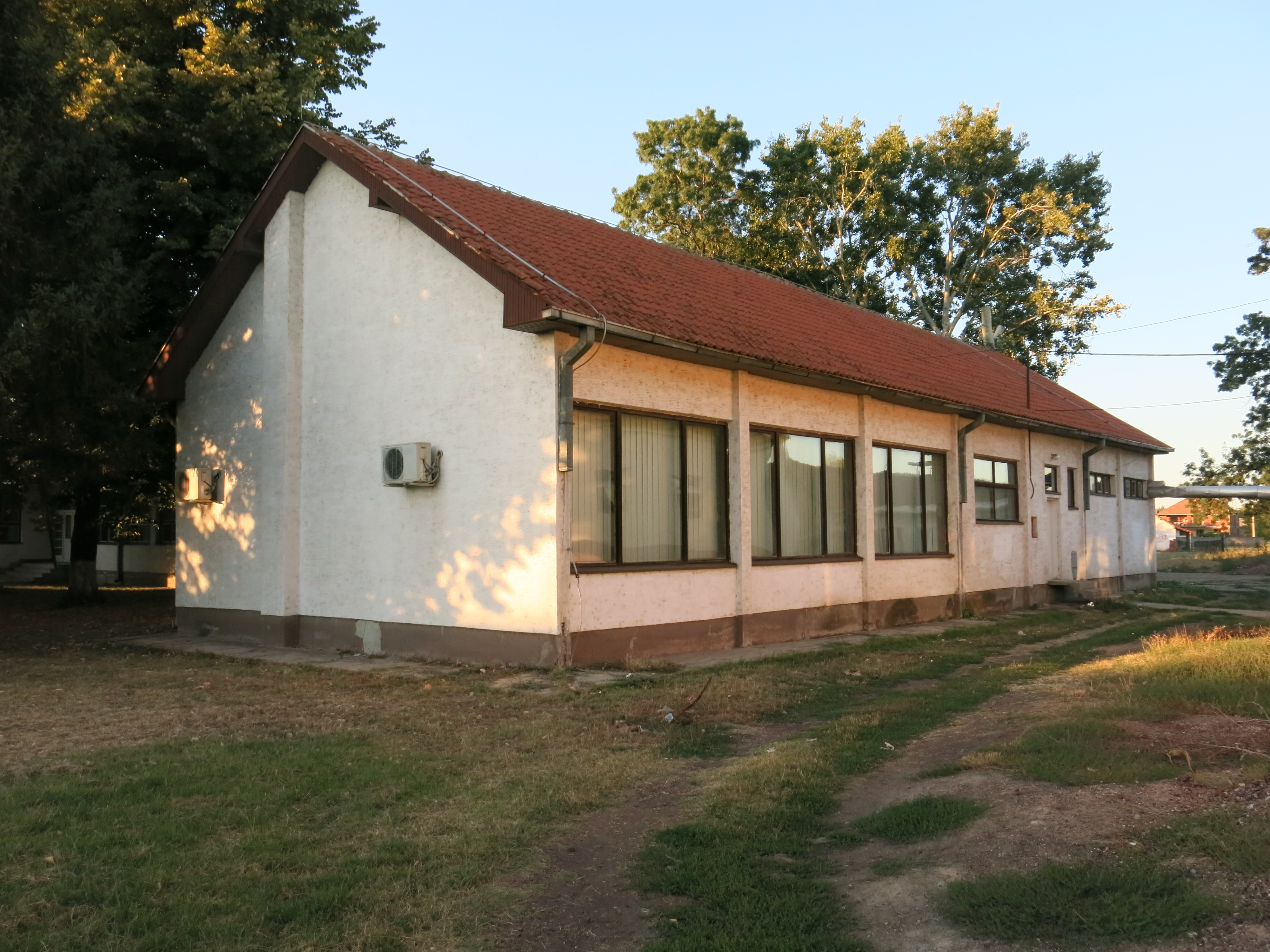 Mala Krsna, Elementary school Đura Jakšić